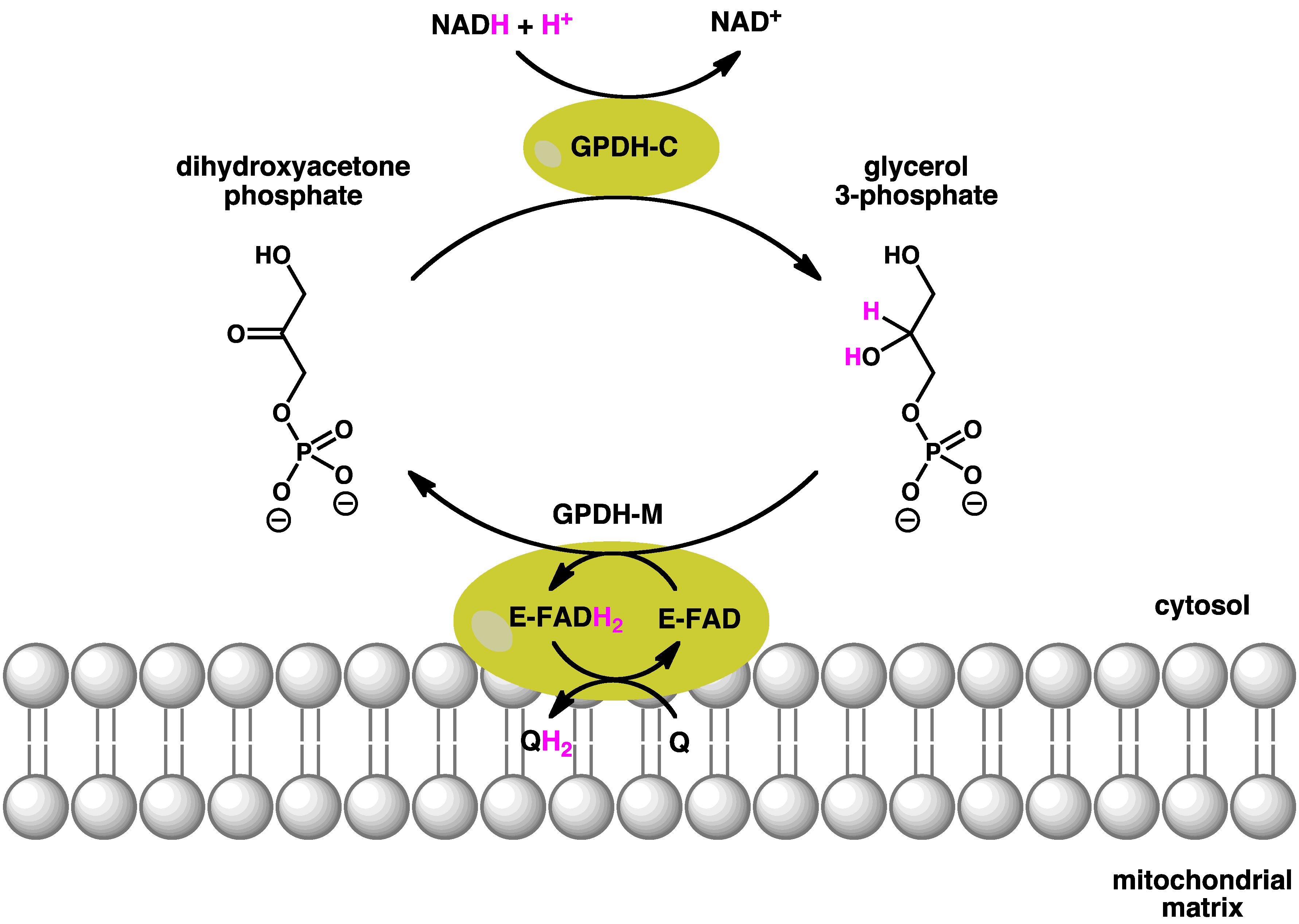 Glycerol 3-Phosphate Shuttle